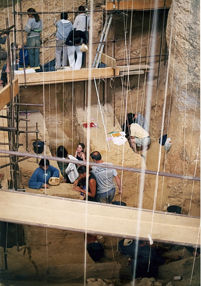 Arago-cave, near Tautavel (Perpignan-region), France